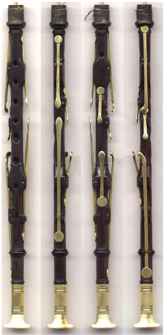 A composite image of a 7-keyed Northumbrian smallpipe chanter made by Robert Reid, in a private collection.